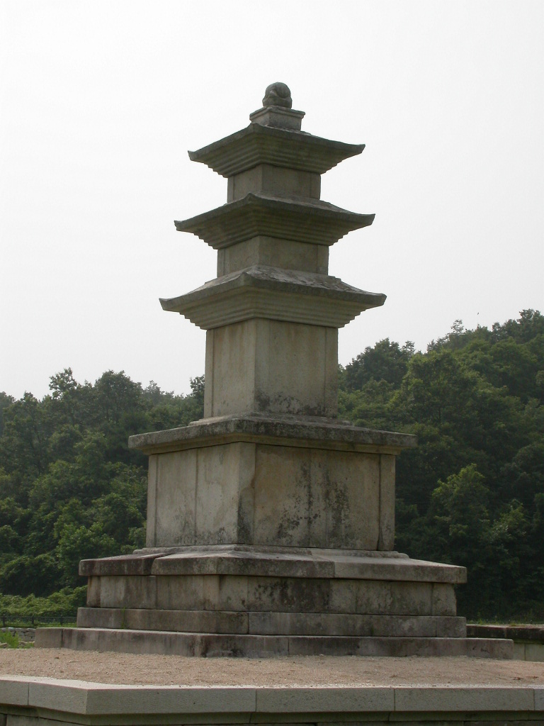 Geodonsaji Pagoda